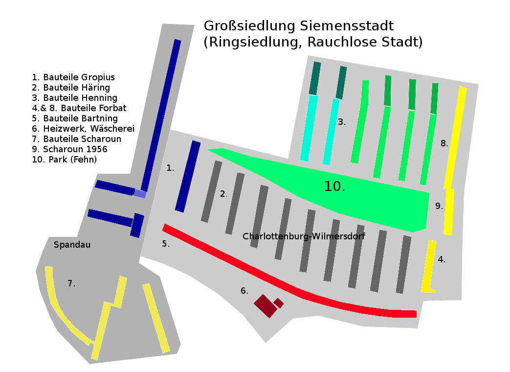 Map of Siemensstadt Housing Estate, Berlin, Germany